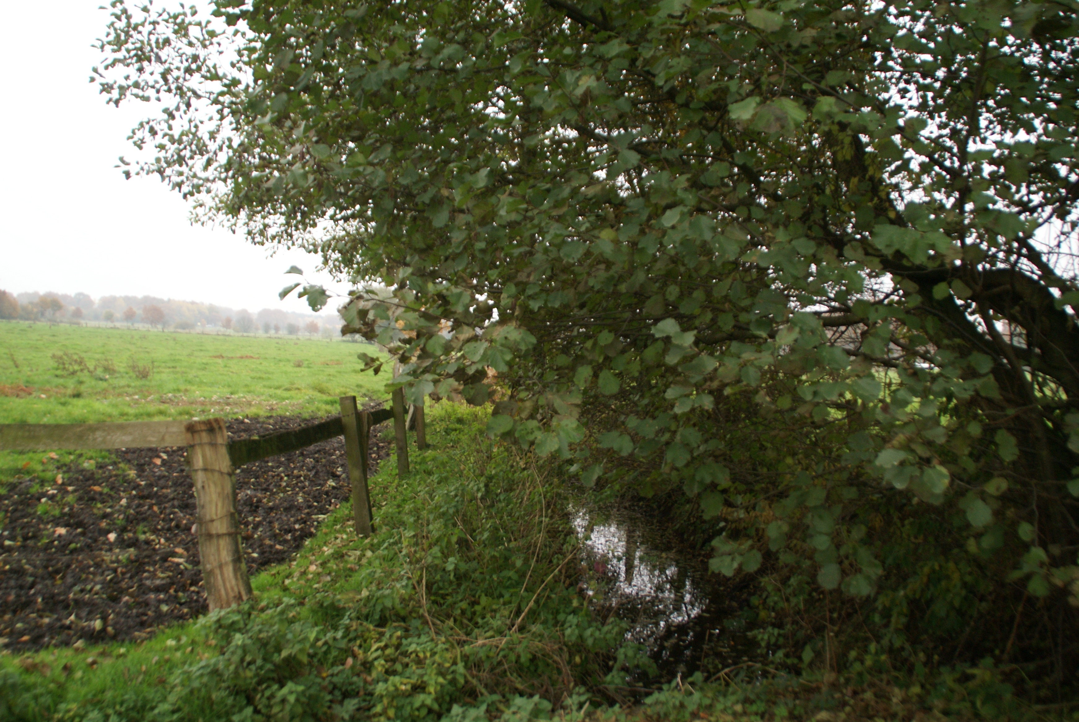 Tangstedt, Germany: The River Tangstedter Graben close to the Wiesenweg